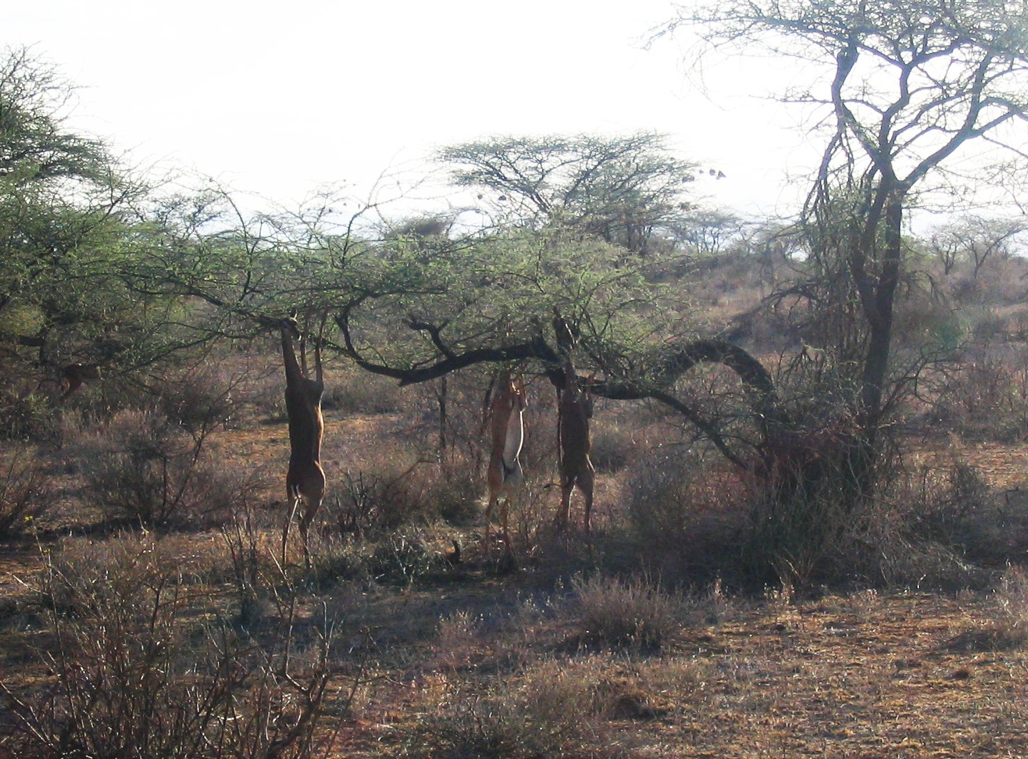 Picture showing giraffegazelles (Litocranius walleri) eating in Samburu National Park (Kenya)